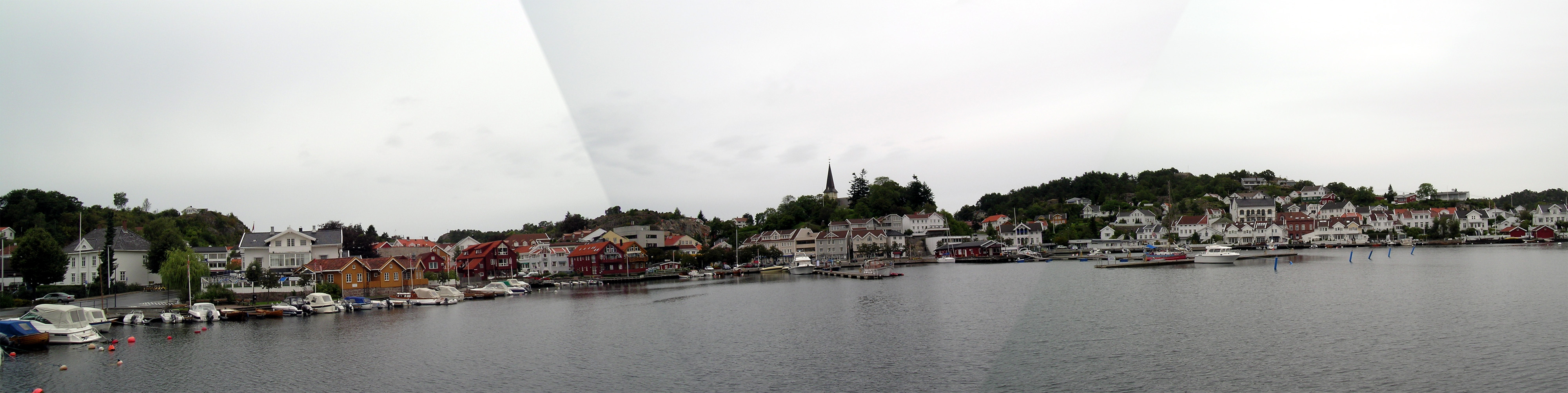 Panoramic view of Grimstad, Norway.